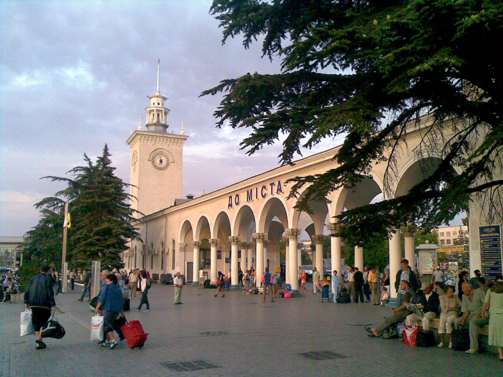 Simferopol_rws-05